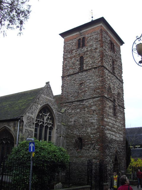 Holy Trinity Church Colchester Built around 1000 this is Colchester's only standing Saxon building.